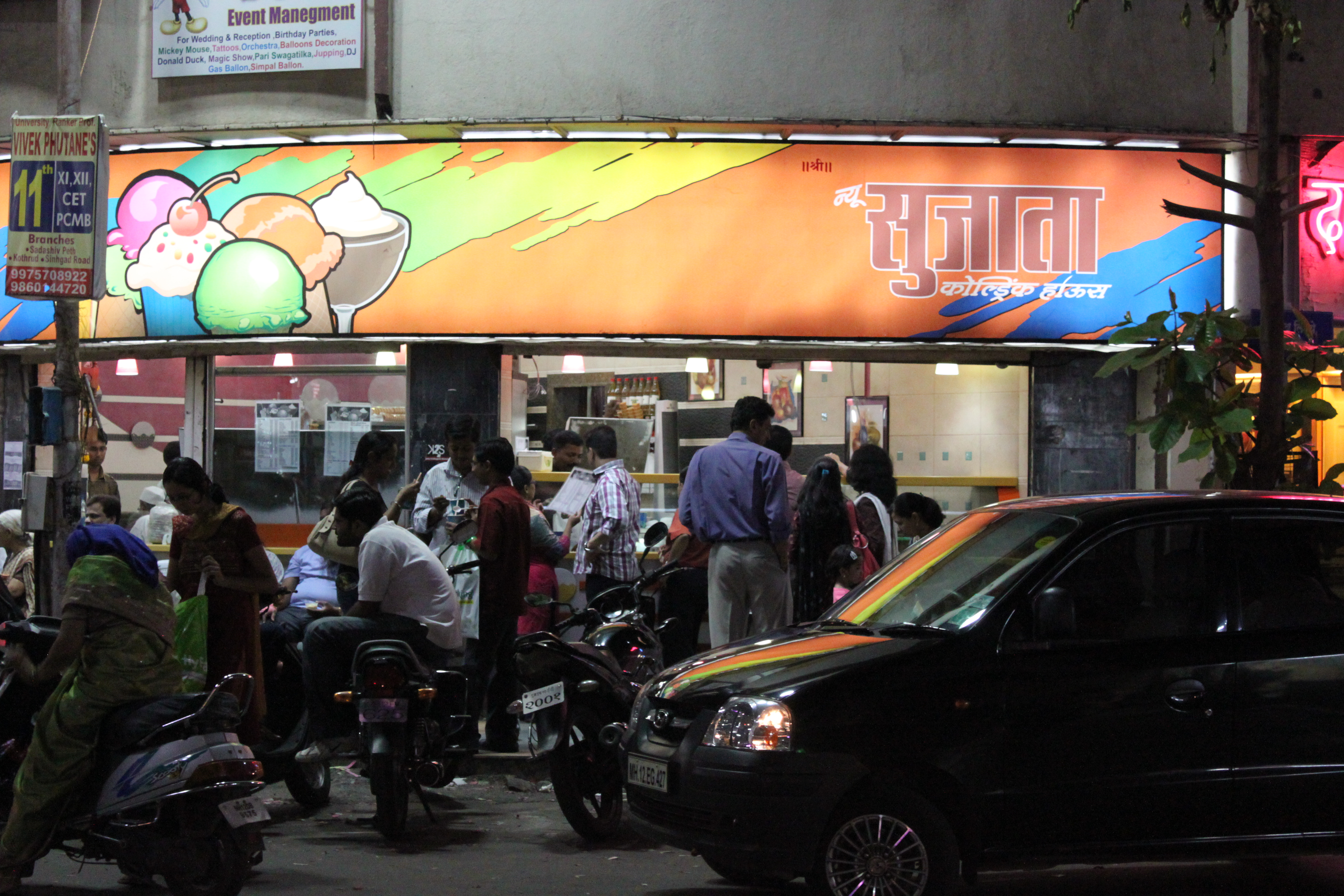 सुजाता मस्तानी, पुणे